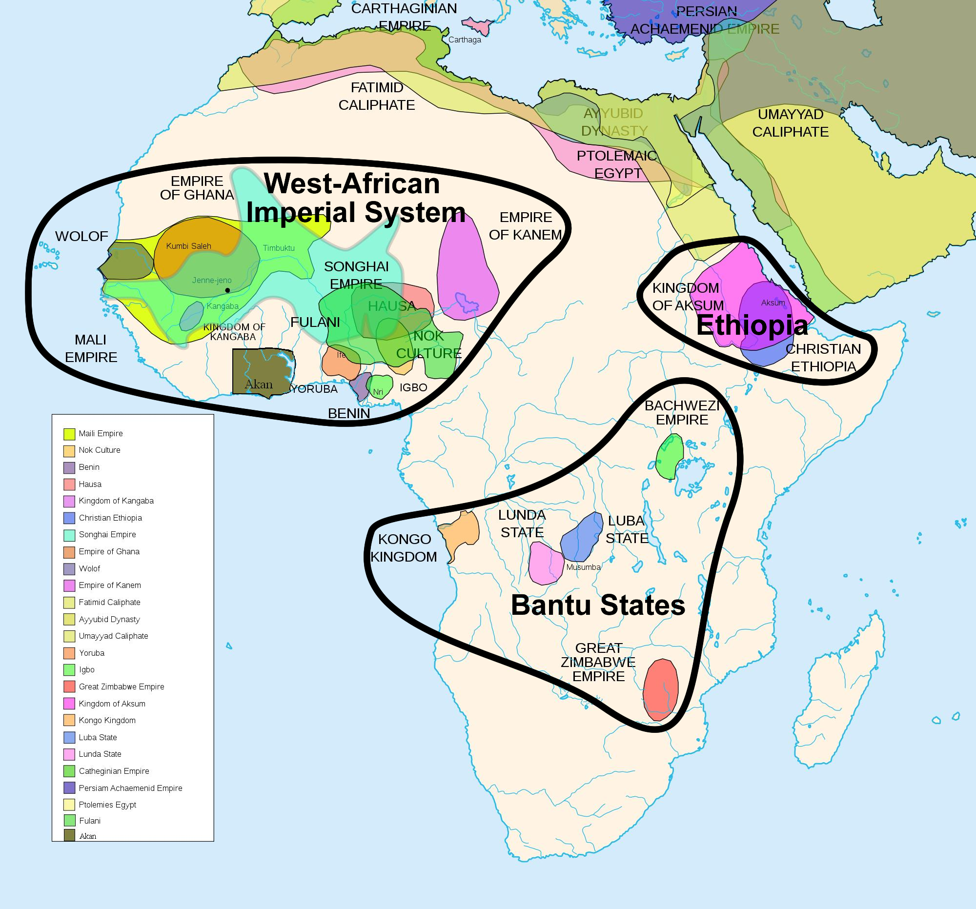 Africa History Atlas Diachronic map showing pre-colonial cultures of Africa (spanning roughly 500 BCE to 1500 CE) This map is "an artistic interpretation" using multiple and disparate sources.